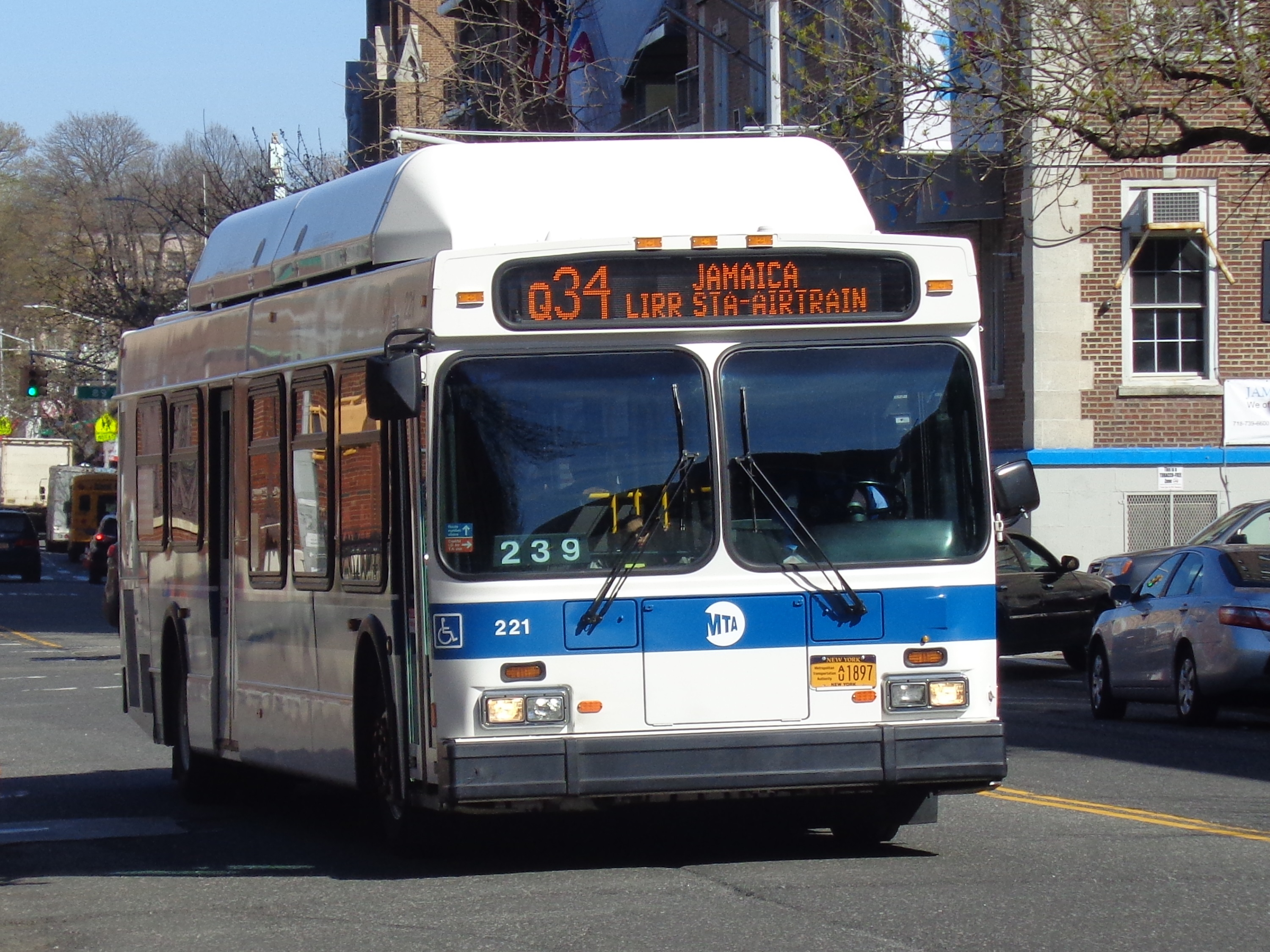 A Jamaica Station/Sutphin Boulevard-bound Q34 bus at Parsons Boulevard and 89th Avenue in Jamaica, Queens.